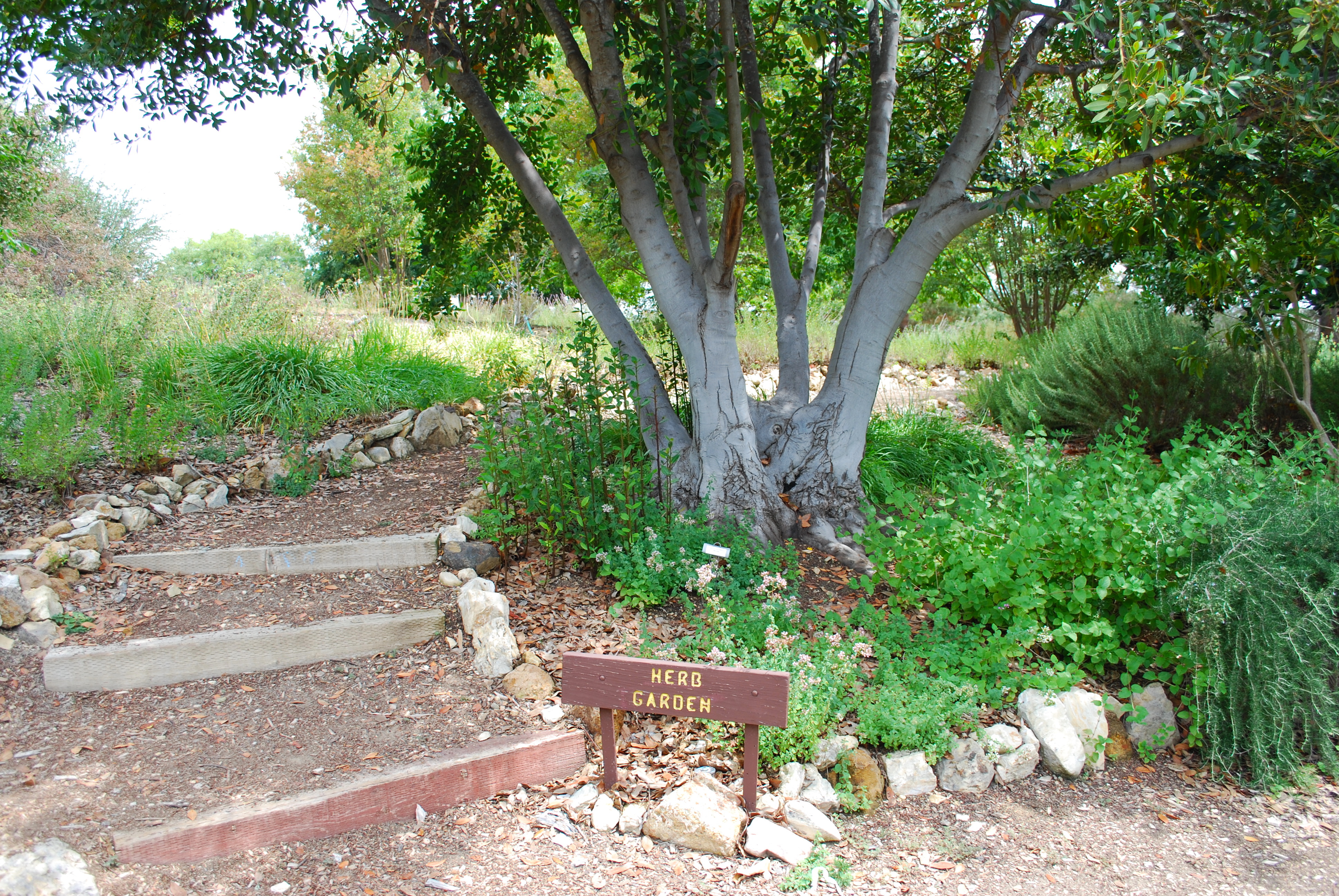 Herb Garden at Conejo Valley Botanic Garden, Thousand Oaks, CA.